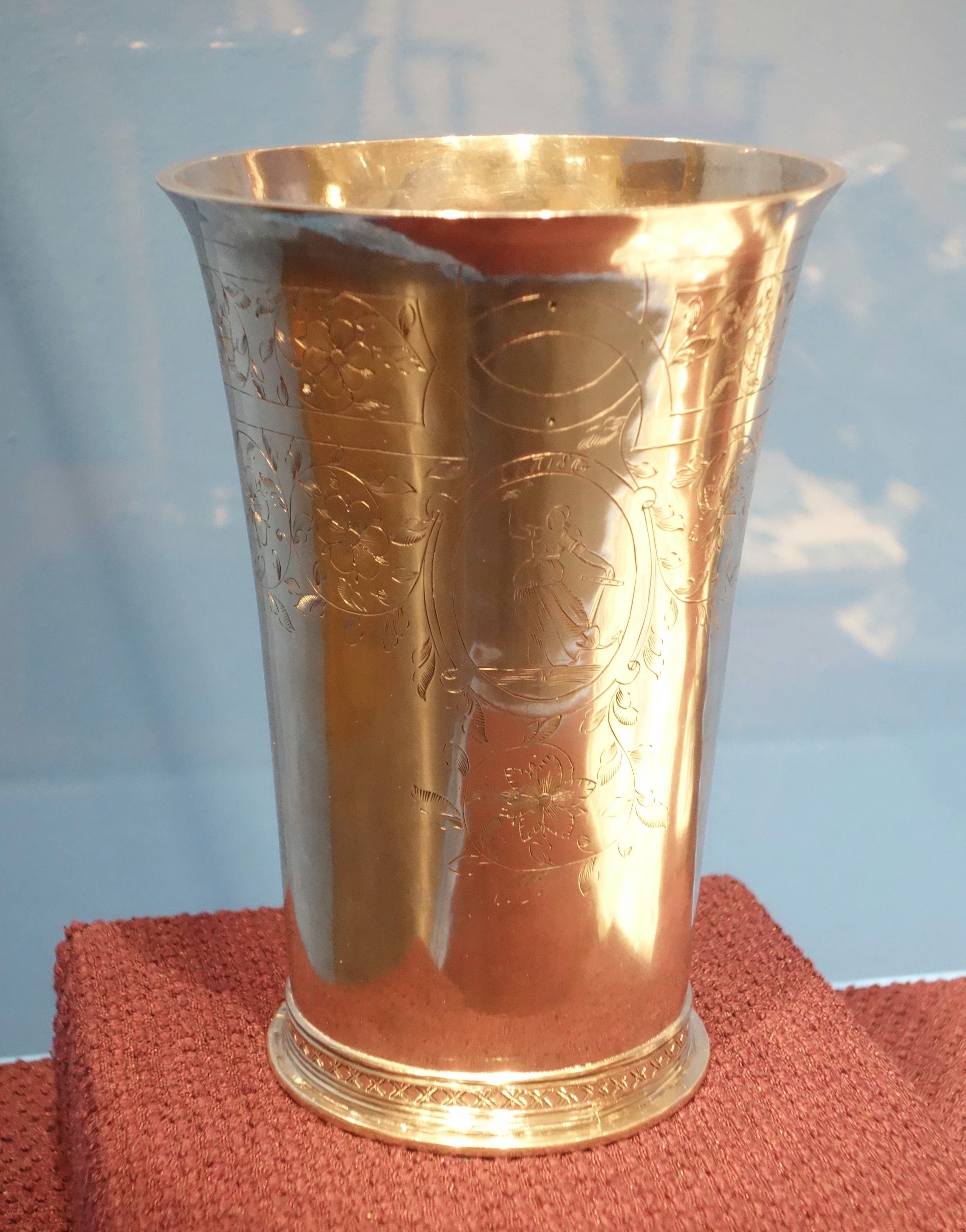 Exhibit in the Brooklyn Museum - Brooklyn, New York, USA. This artwork is in the public domain because the artist died more than 70 years ago.